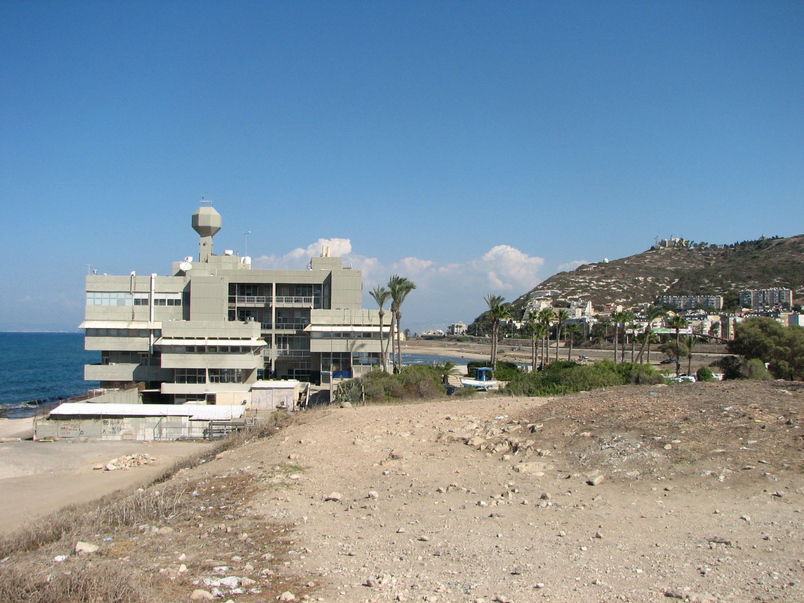 Oceanographic Institute Haifa, Israel